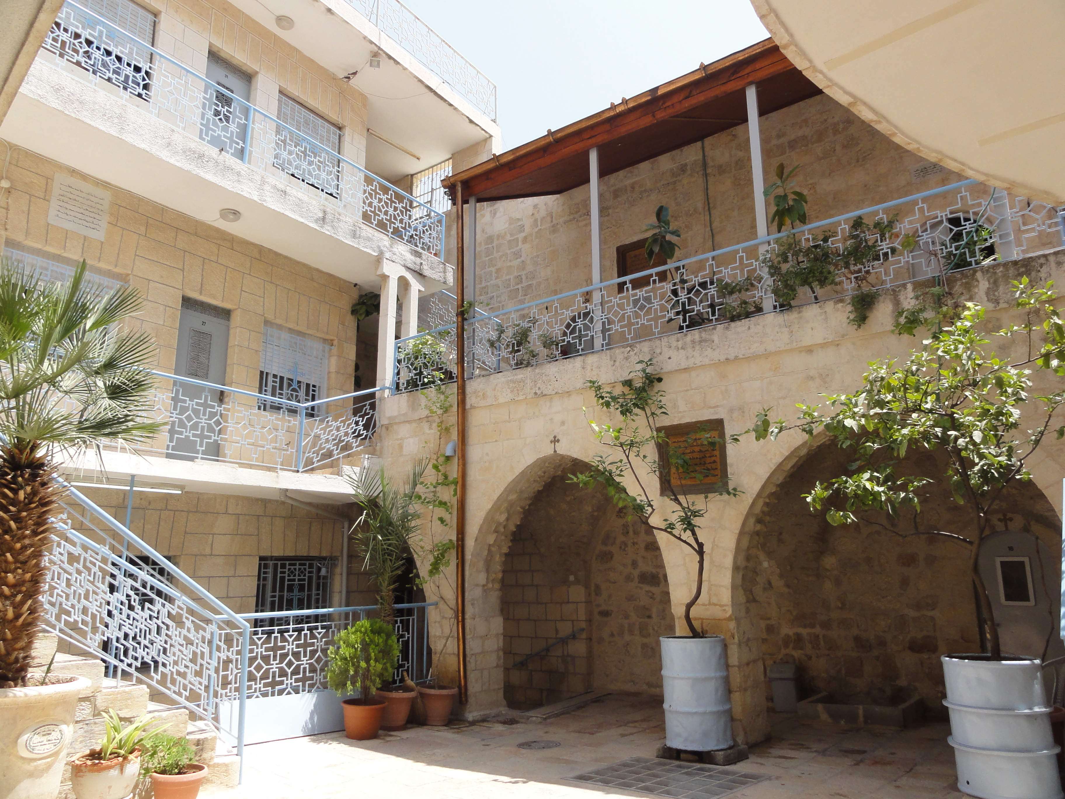 Old Jerusalem, Armenian quarter, Ararat road, a courtyard somewhere in the old city of Jerusalem near Saint Mark church (St. Mark Convent?)